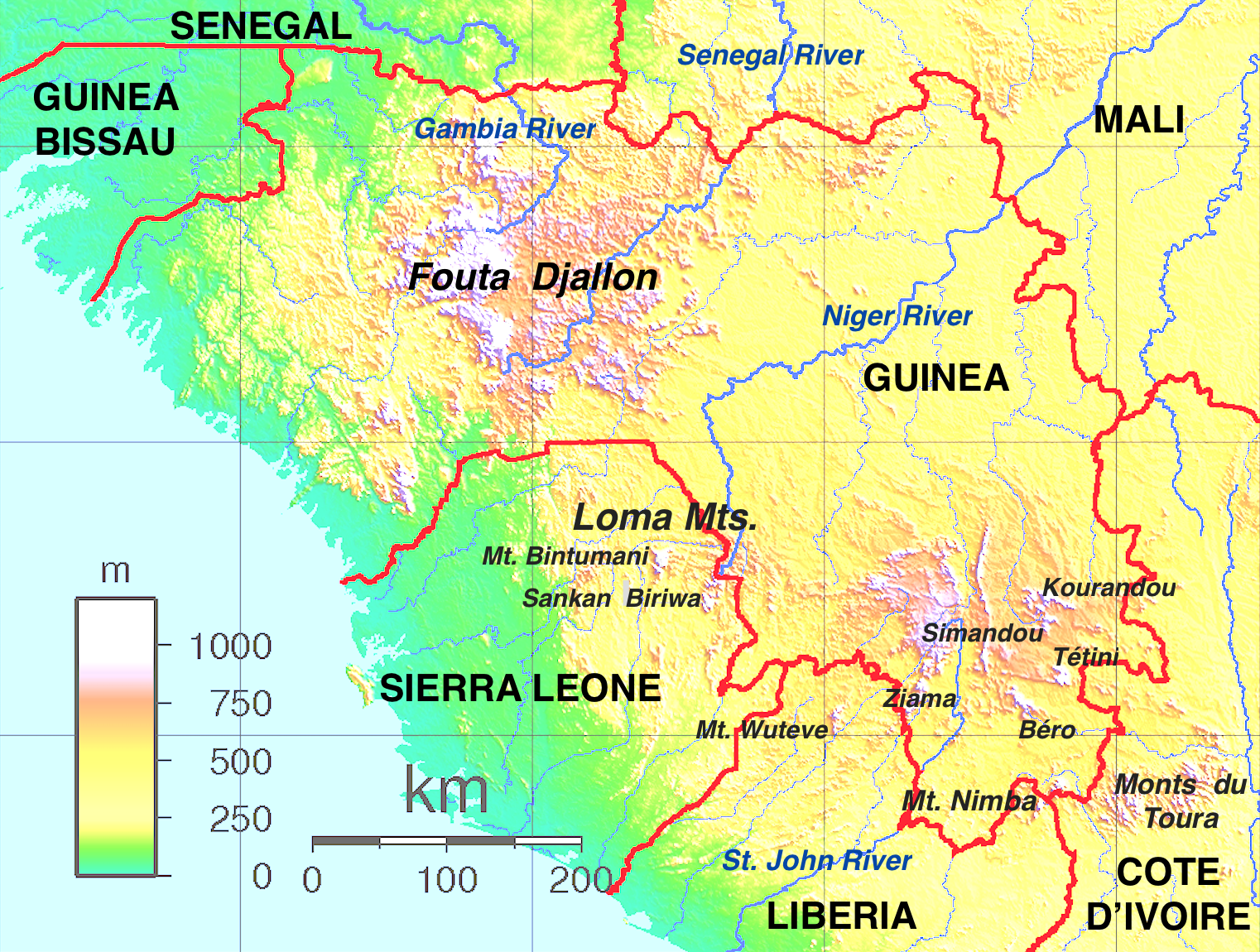 Map of the Guinea Highlands, with selected ranges, peaks, and rivers.